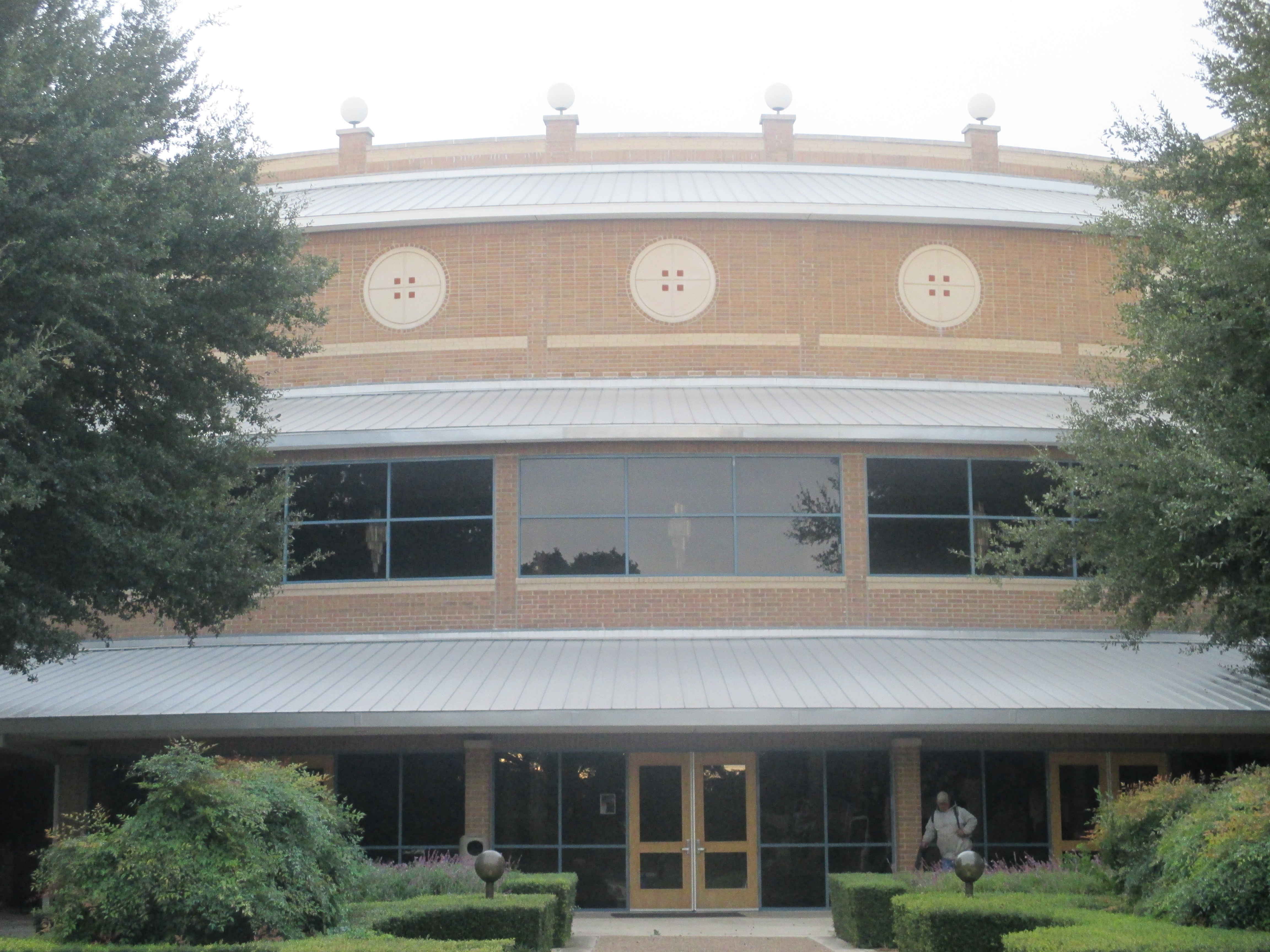 Jackson Auditorium on Texas Lutheran University campus in Seguin